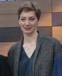 Yelizaveta-Osetinskaya, cropped. Derivative of: File:Dmitry Medvedev with journalists 2015.png, produced by Government.ru